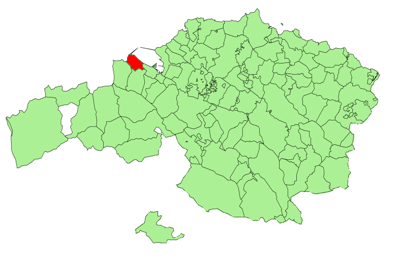 Zierbena municipality in the province of Biscay